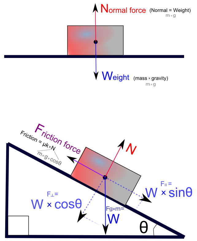 This is a free body diagram of an object (the rectangle) on a flat surface (upper image) and an incline (bottom image).